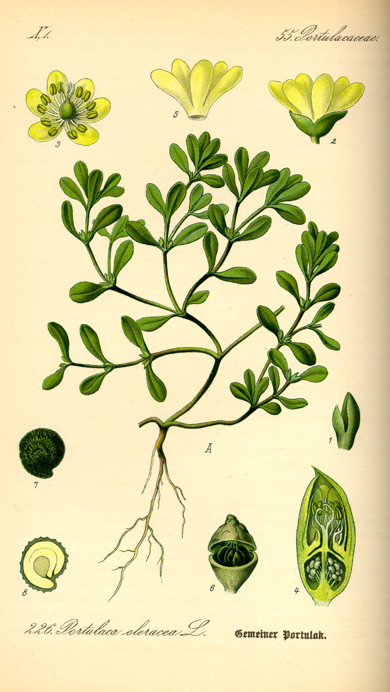 Portulaca oleracea L.